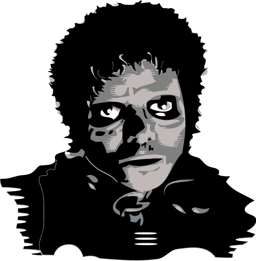 Michael Jackson Thriller Vector Image, available for free download at